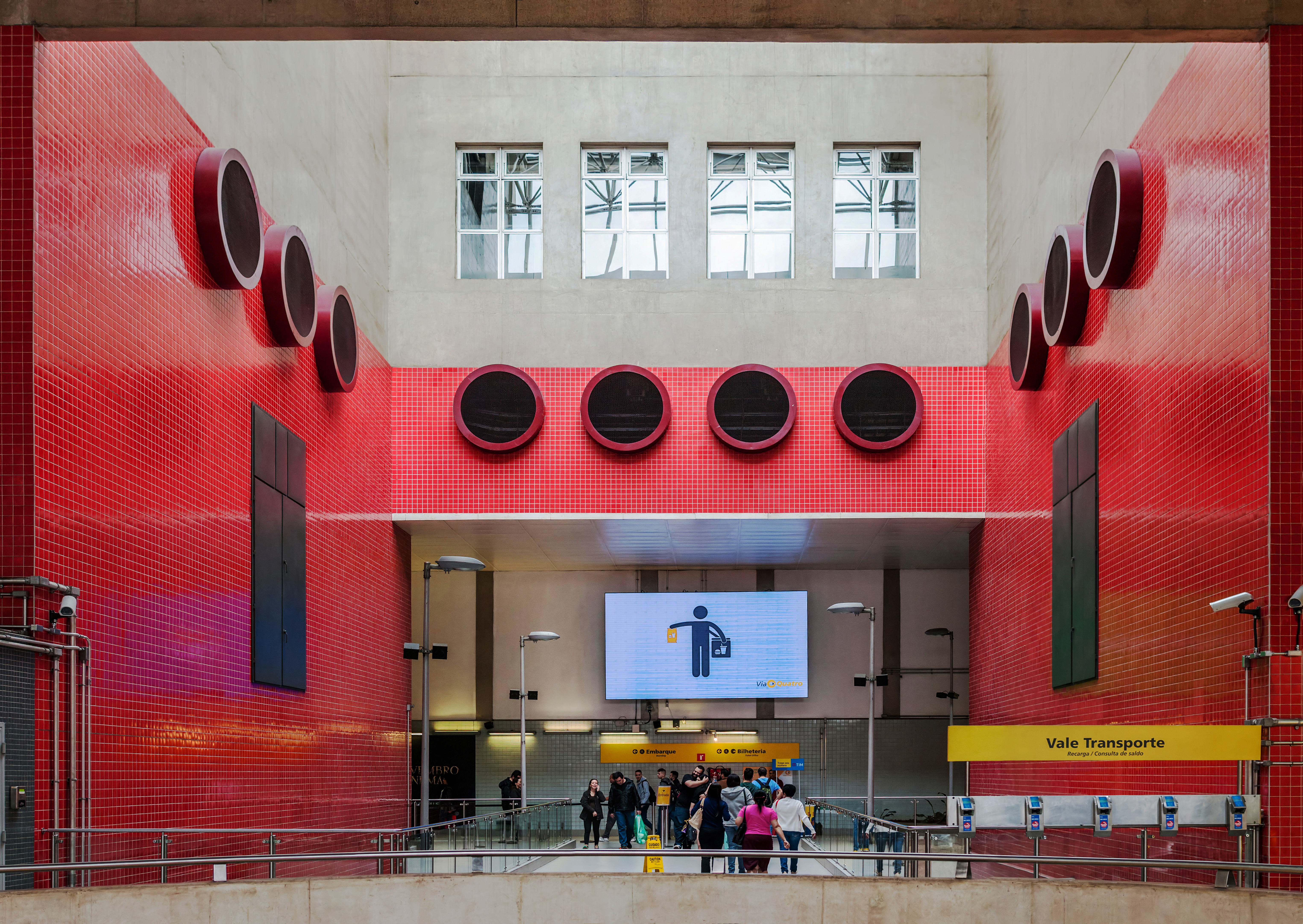 Atrium of Paulista station at Consolação Street, in São Paulo, Brazil.